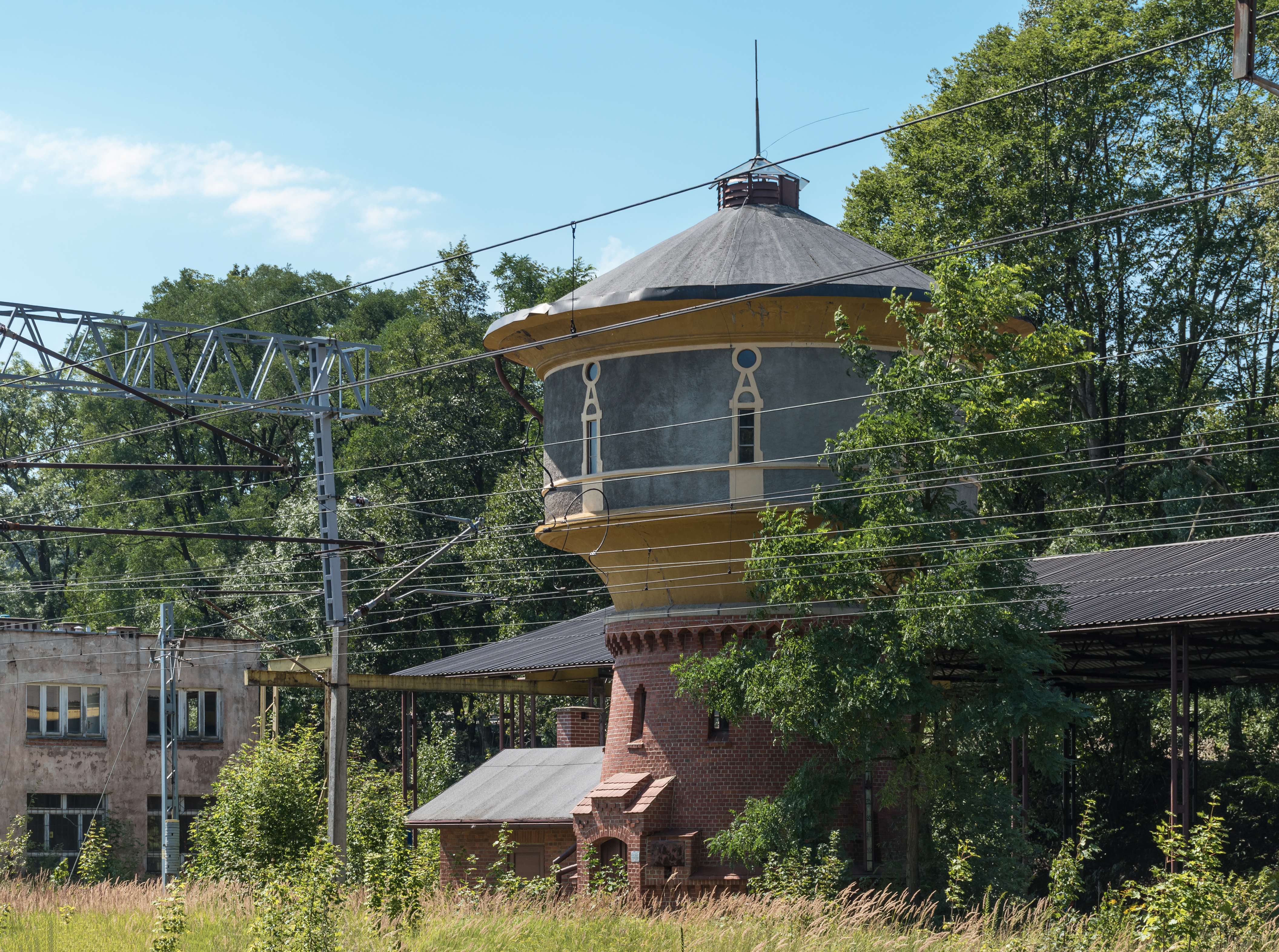 Railway water tower in Międzylesie Wikidata has entry Q30049036 with data related to this item.